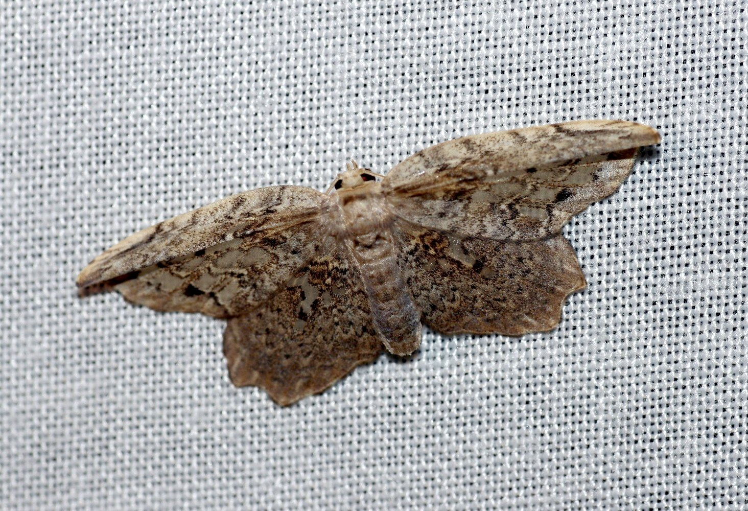 Borneo. Crocker Range National Park. April 2009